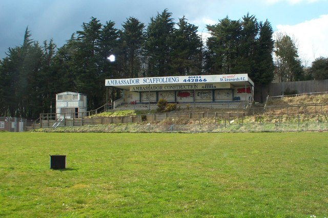 The Firs, St Leonard's FC, Pilot Field, Elphinstone Road The Firs. The stand and shop. St Leonard's Football Club. No longer in existence. Pilot Field Sports Ground, Elphinstone Road.